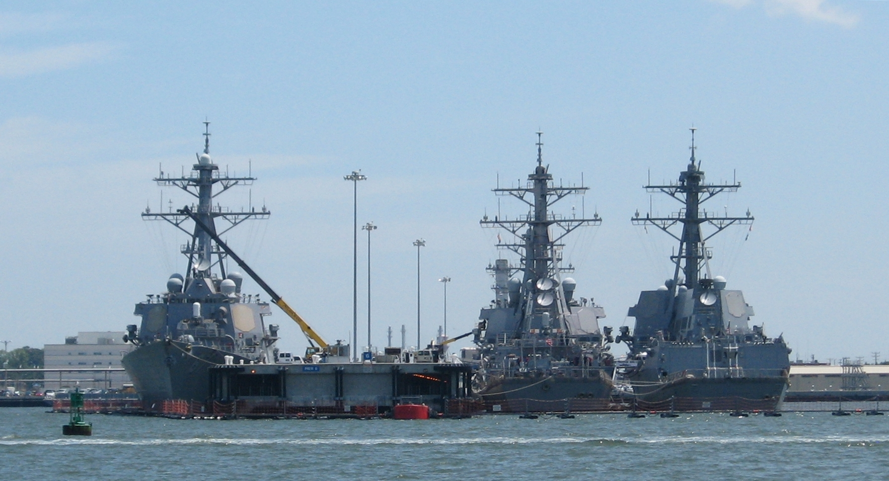 Three Arleigh Burke Class United States Navy vessels docked in Norfolk, Virginia